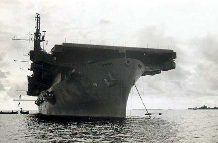 The U.S. Navy escort carrier USS Bismarck Sea (CVE-95) at anchor in Majuro Atoll, circa in August 1944.